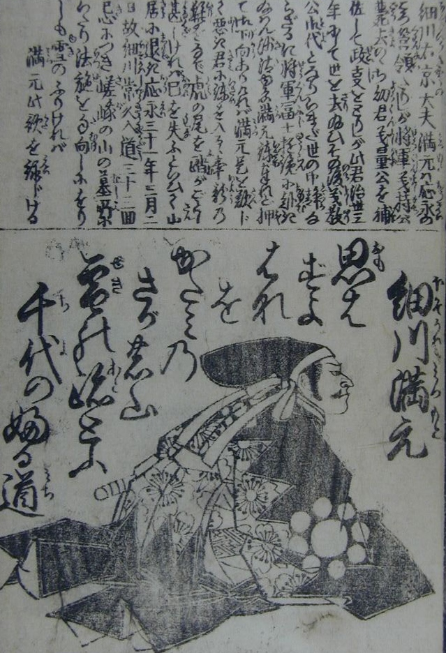 hosokawa_mitumoto